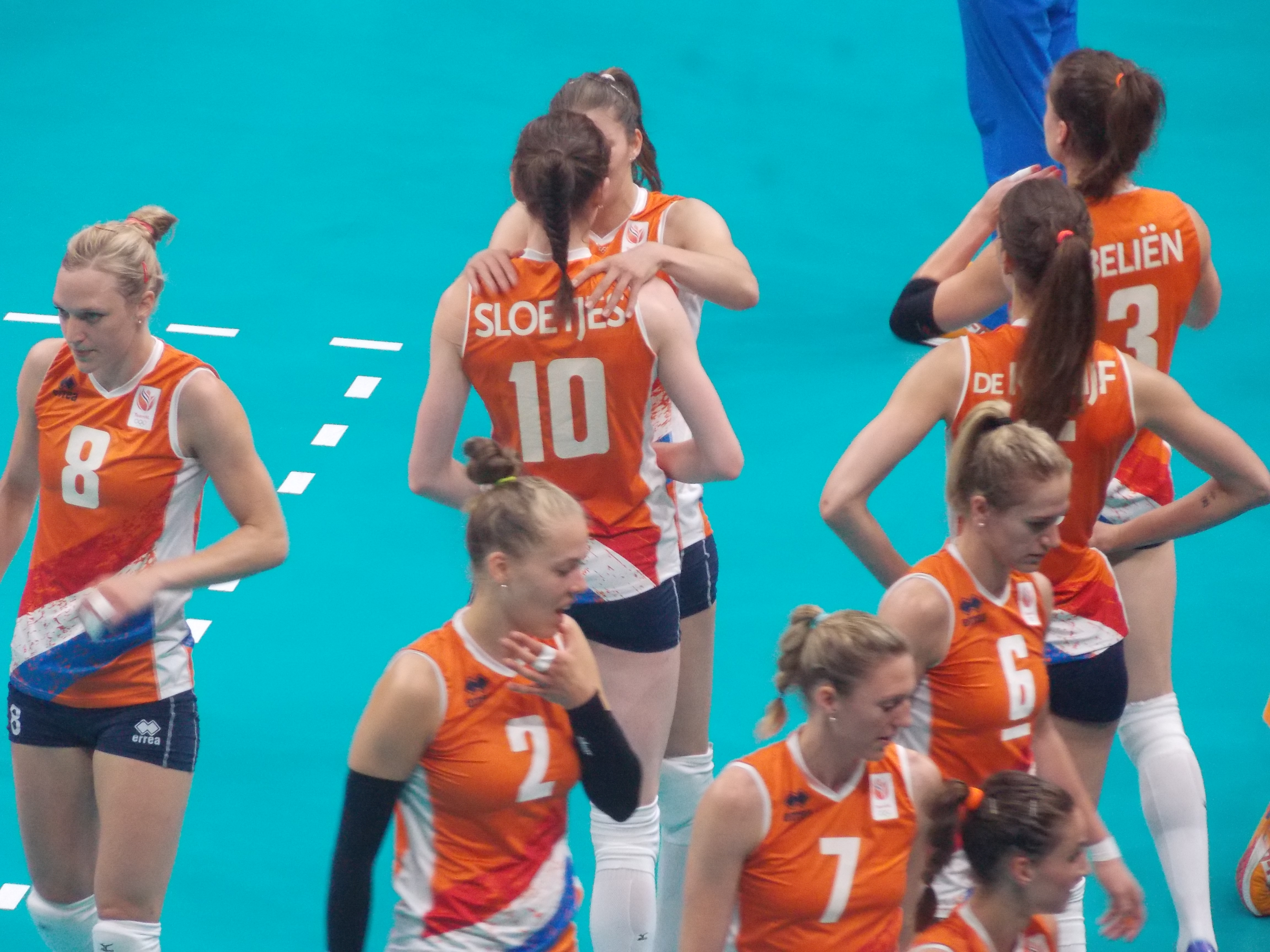 Volleyball at the 2016 Summer Olympics – Women's tournament: South Korea 1x3 Netherlands (19–25, 14–25, 25–23, 20–25).